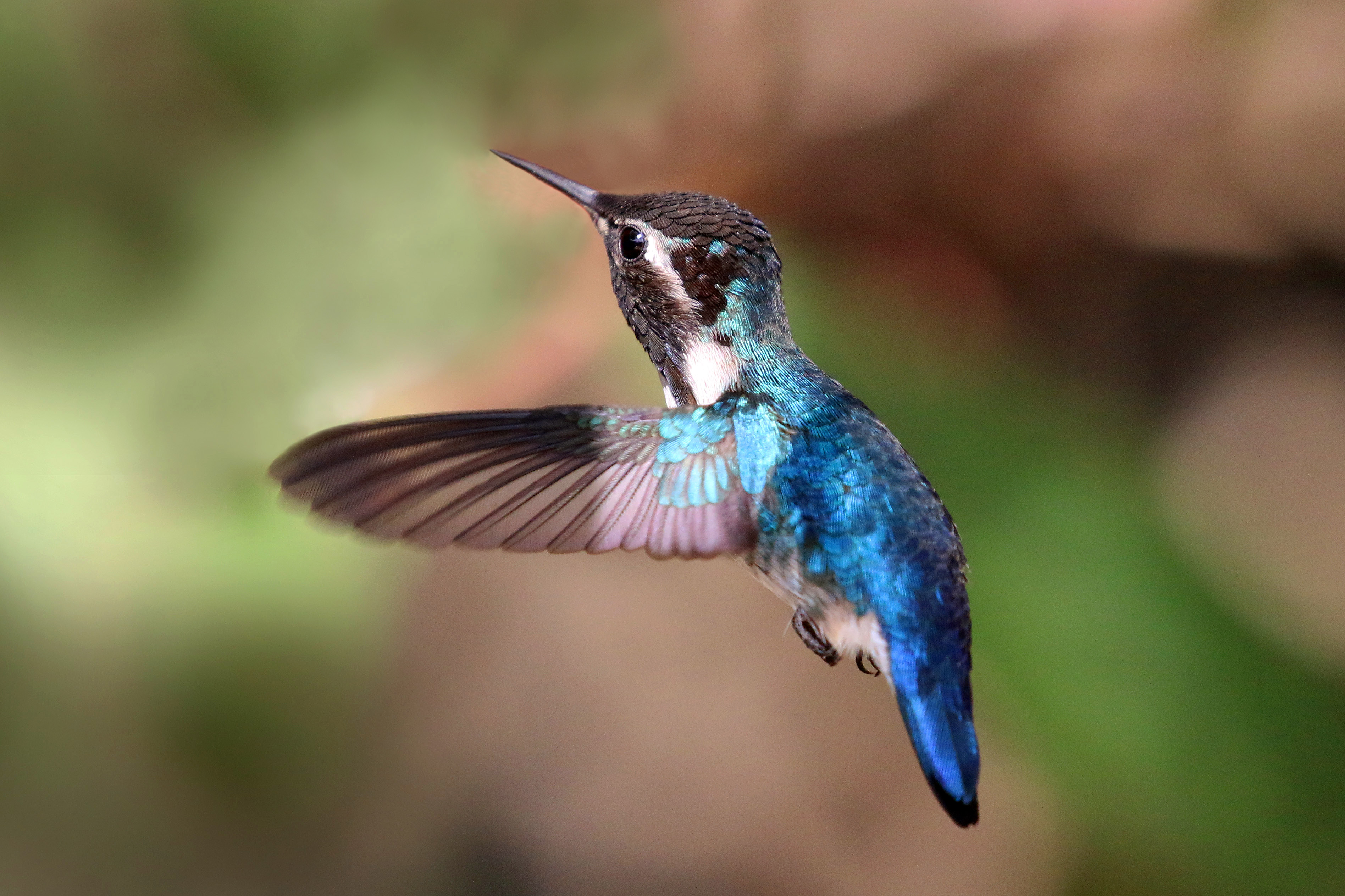 Bee hummingbird (Melisuga helenae) adult male, Cuba